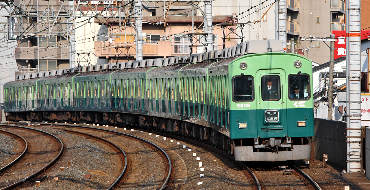 Keihan 5000 series EMU set 5556